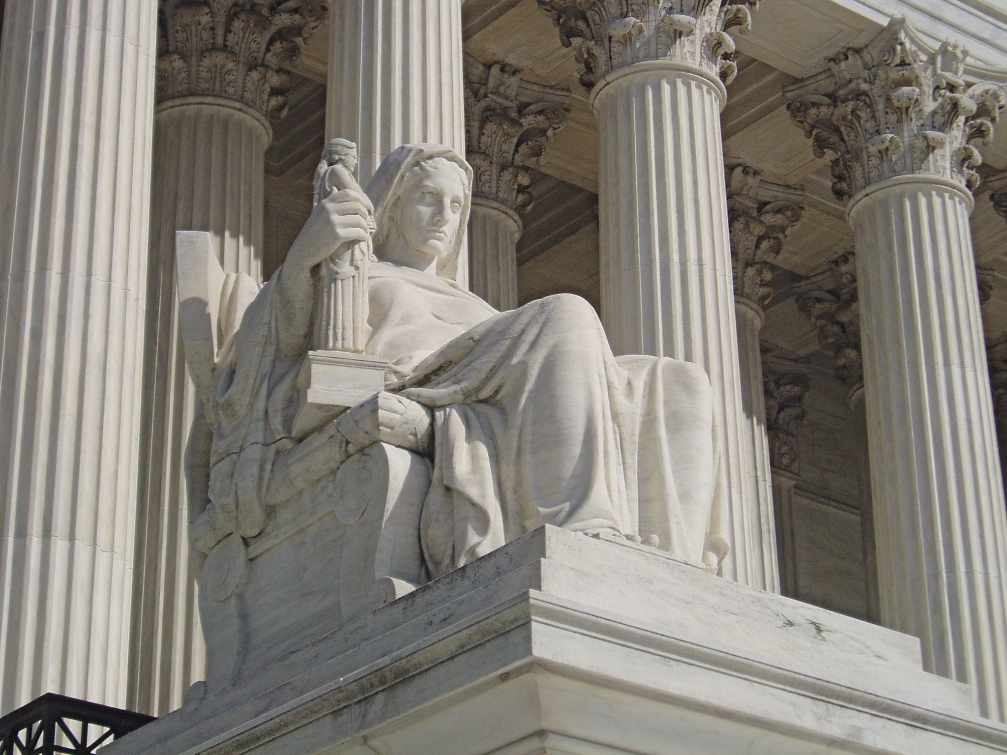 James Earle Fraser's statue The Contemplation of Justice, which sits on the west side of the United States Supreme Court building, on the north side of the main entrance stairs. The sculpture was installed in 1935 is in the public domain under PD-US-no notice.